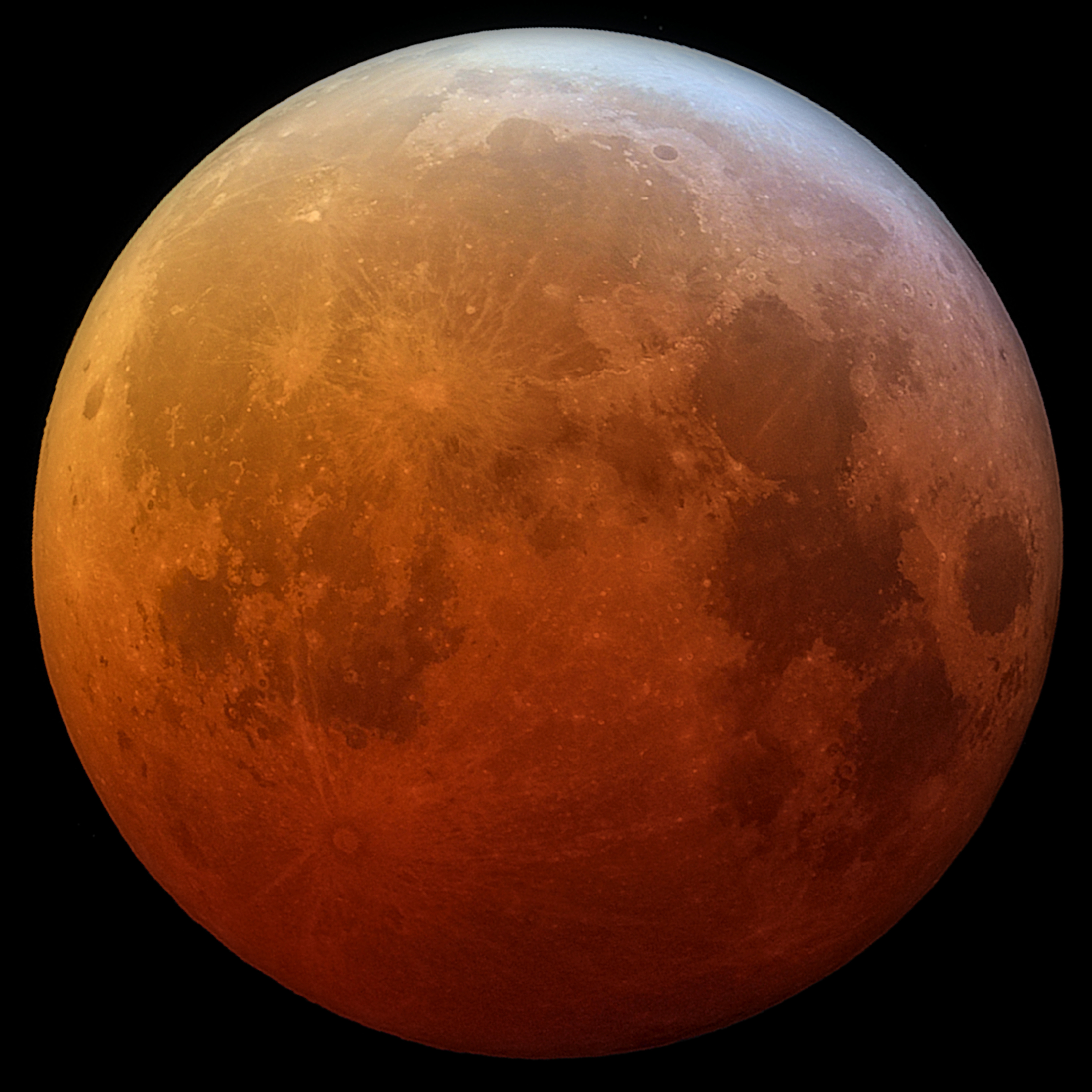 Total lunar eclipse on January 21, 2019 Taken from Oria (Brindisi), Italy TecnoSky APO triplet SLD 102/714 + Canon EOS 4000D 4x1.3 sec afocal shots stacked . Presence of haze.